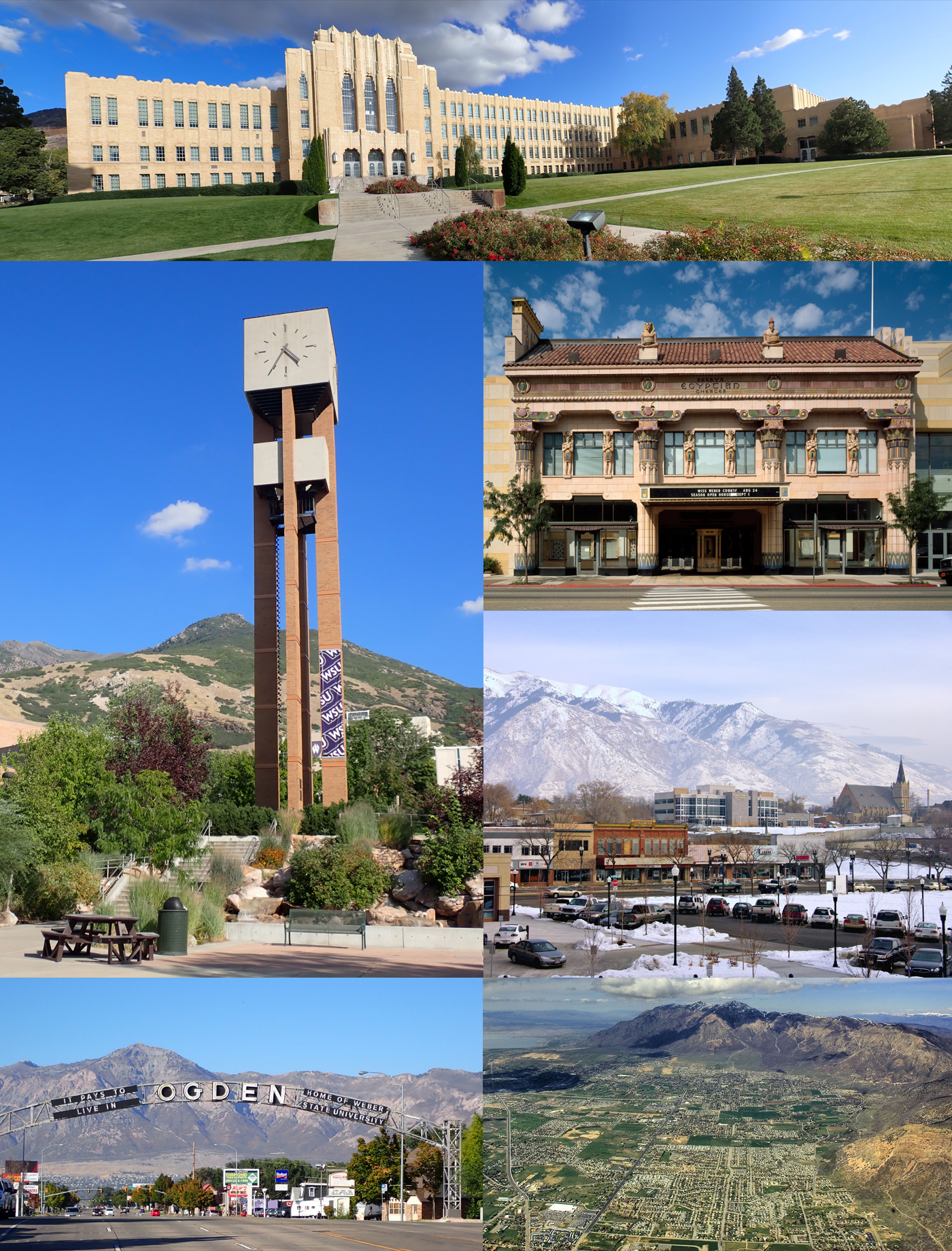 An image montage of Ogden City. From Top to Bottom: Ogden High School Tower Bell Weber State University Peery's Egyptian Theater Downtown Gantry Sign Ogden Aerial photography featuring Mount Ben Lomond to the north of the city of Ogden